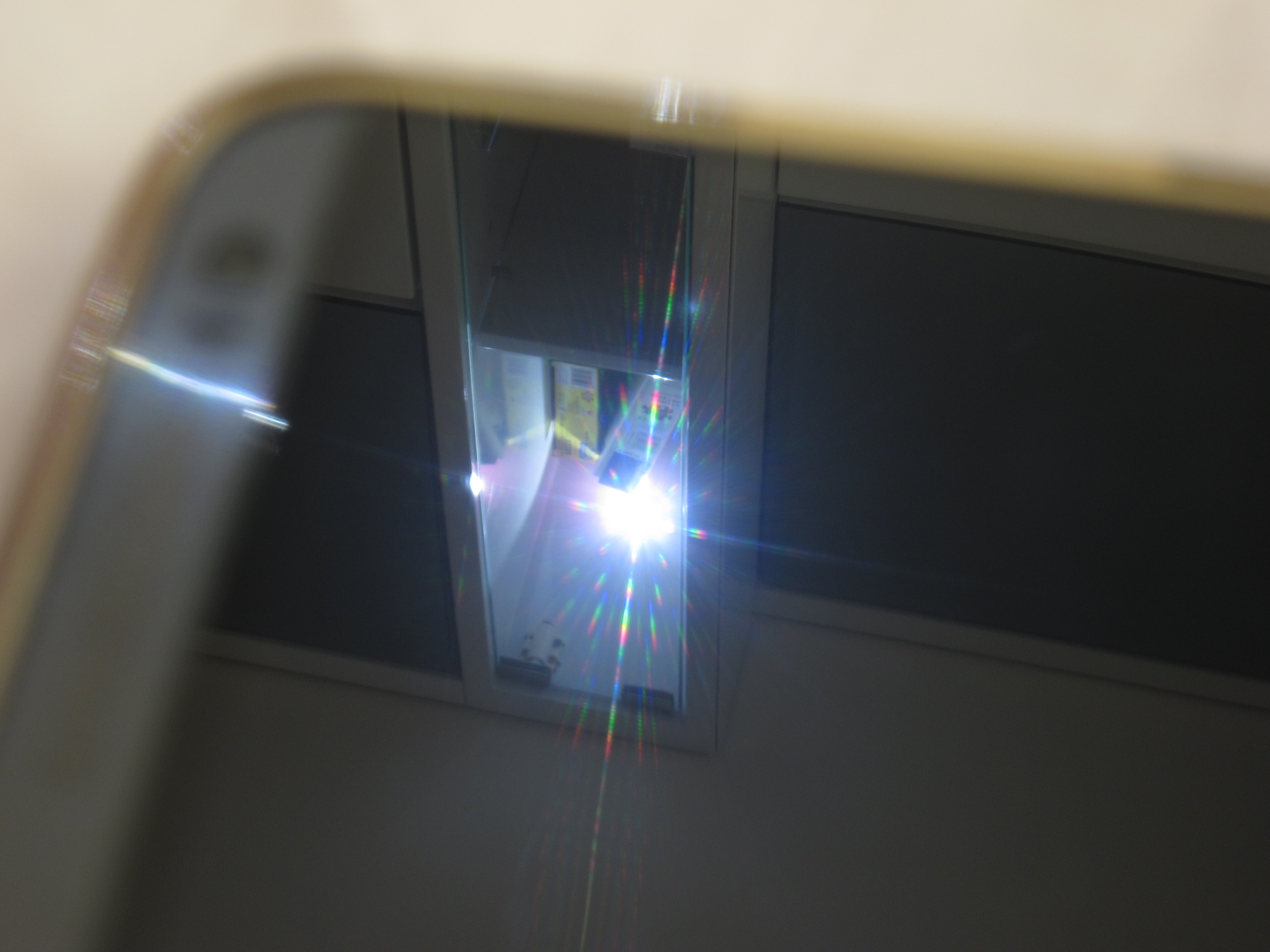 Diffraction pattern of a household spotlight over a smart phone (HTC M8). The phone has a RGB sub-pixel layout in the horizontal direction, leading to a bright interference in the third pattern from the main reflection in the horizontal direction. The phone has a glassy screen protector, which does not affect the diffraction pattern noticeably. This illustrates that as long as light source is narrow and bright enough, we can see the diffraction pattern. For measurements it is better to have a monochromatic light source.